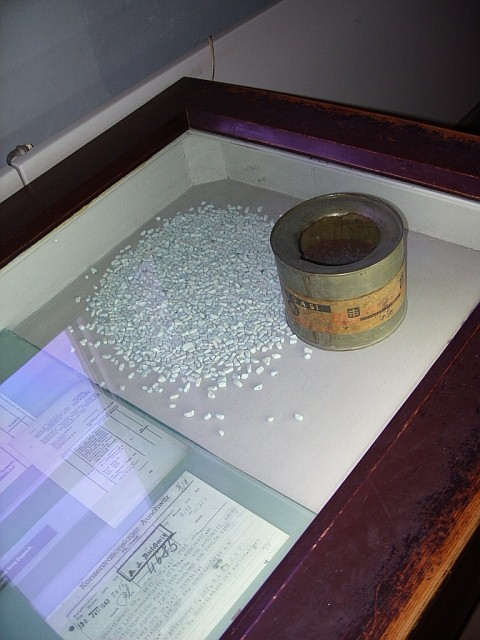 A can of Zyklon B lethal gas granules and original signed documents detailing ordering of such gas as "materials for Jewish resettlement" on display at Auschwitz.